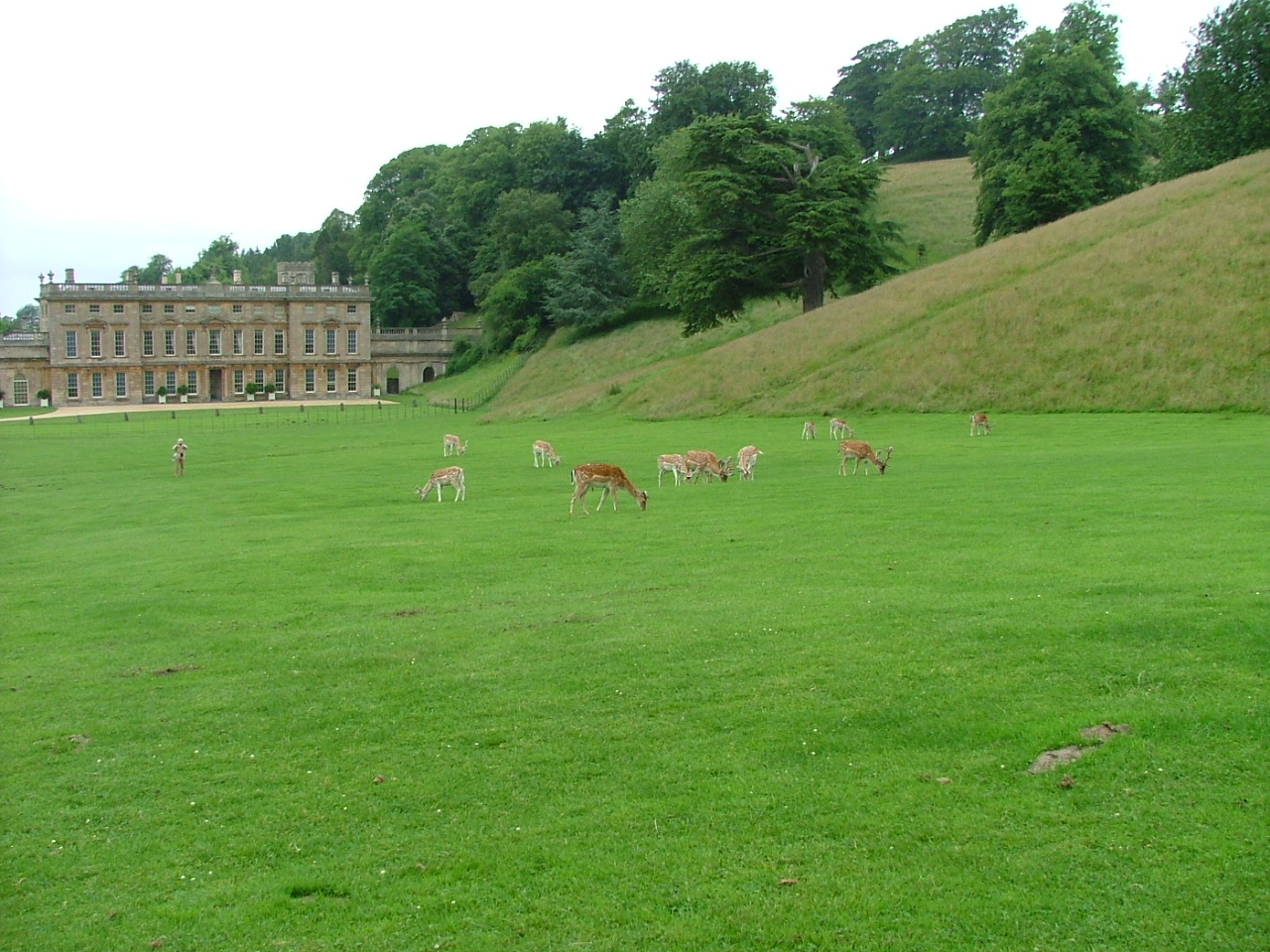 A photograph of Dyrham Park, featuring deer.